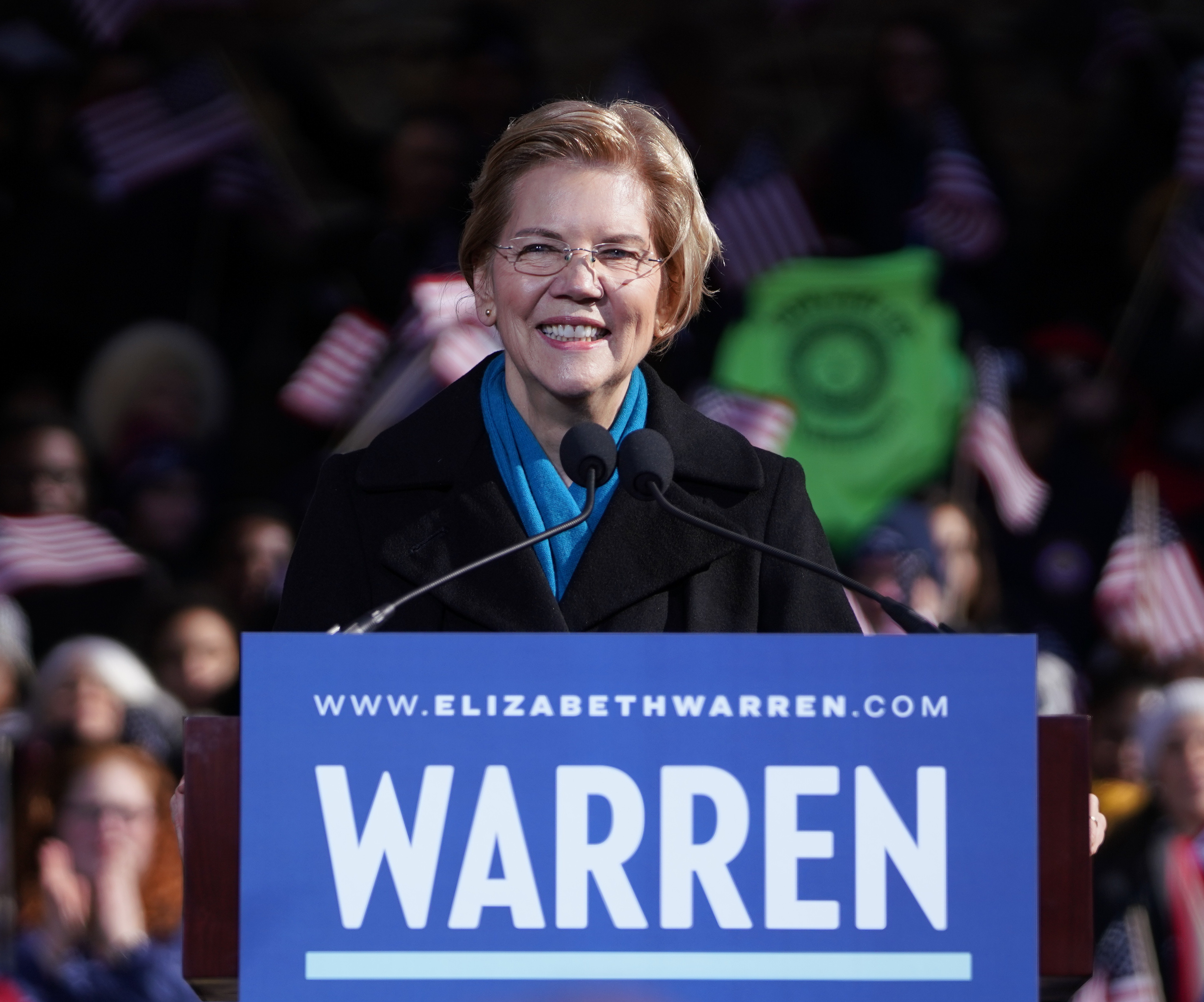 Elizabeth Warren announcement